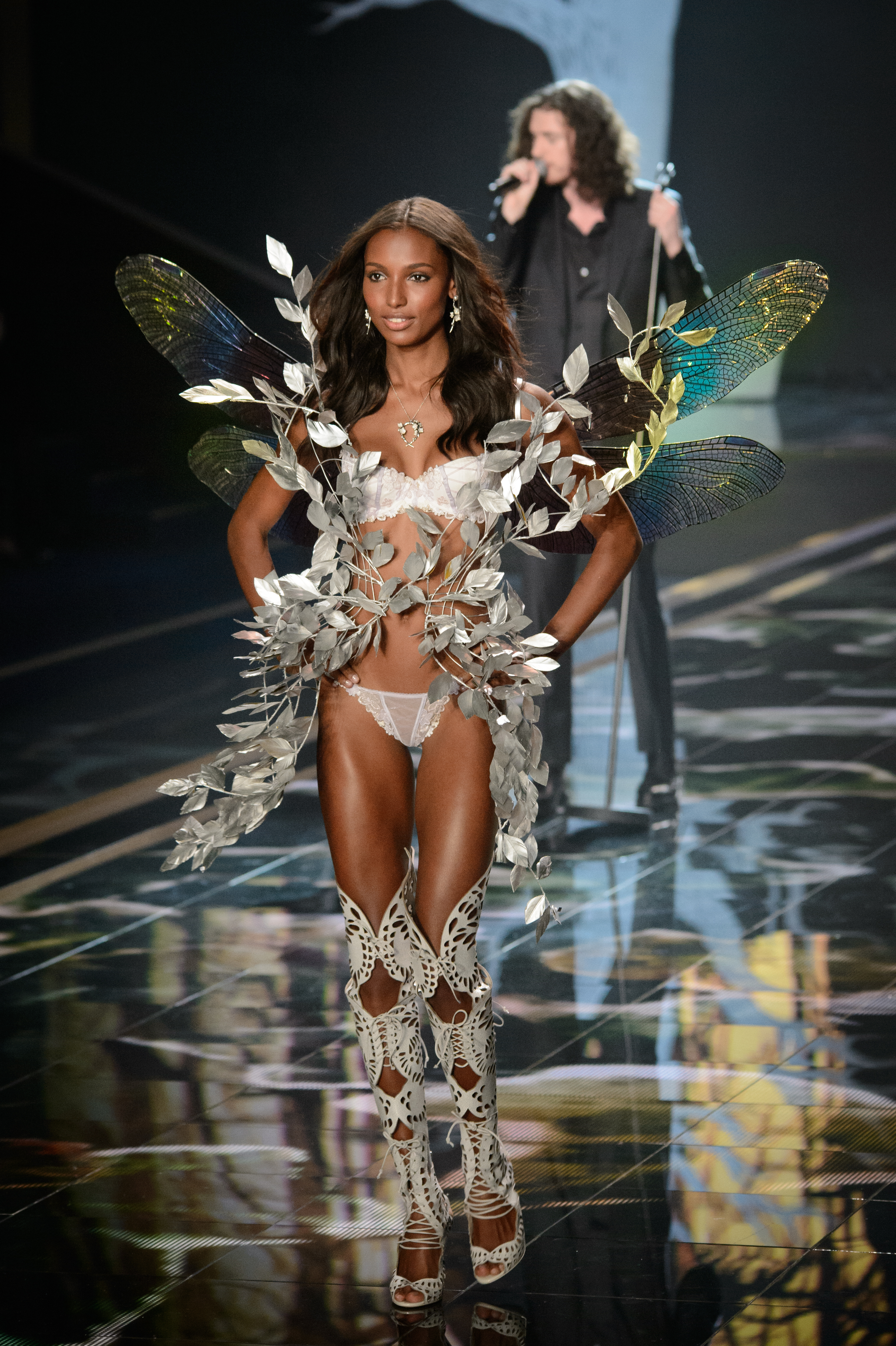 Jasmine Tookes at the 2014 Victoria's Secret Fashion Show in London